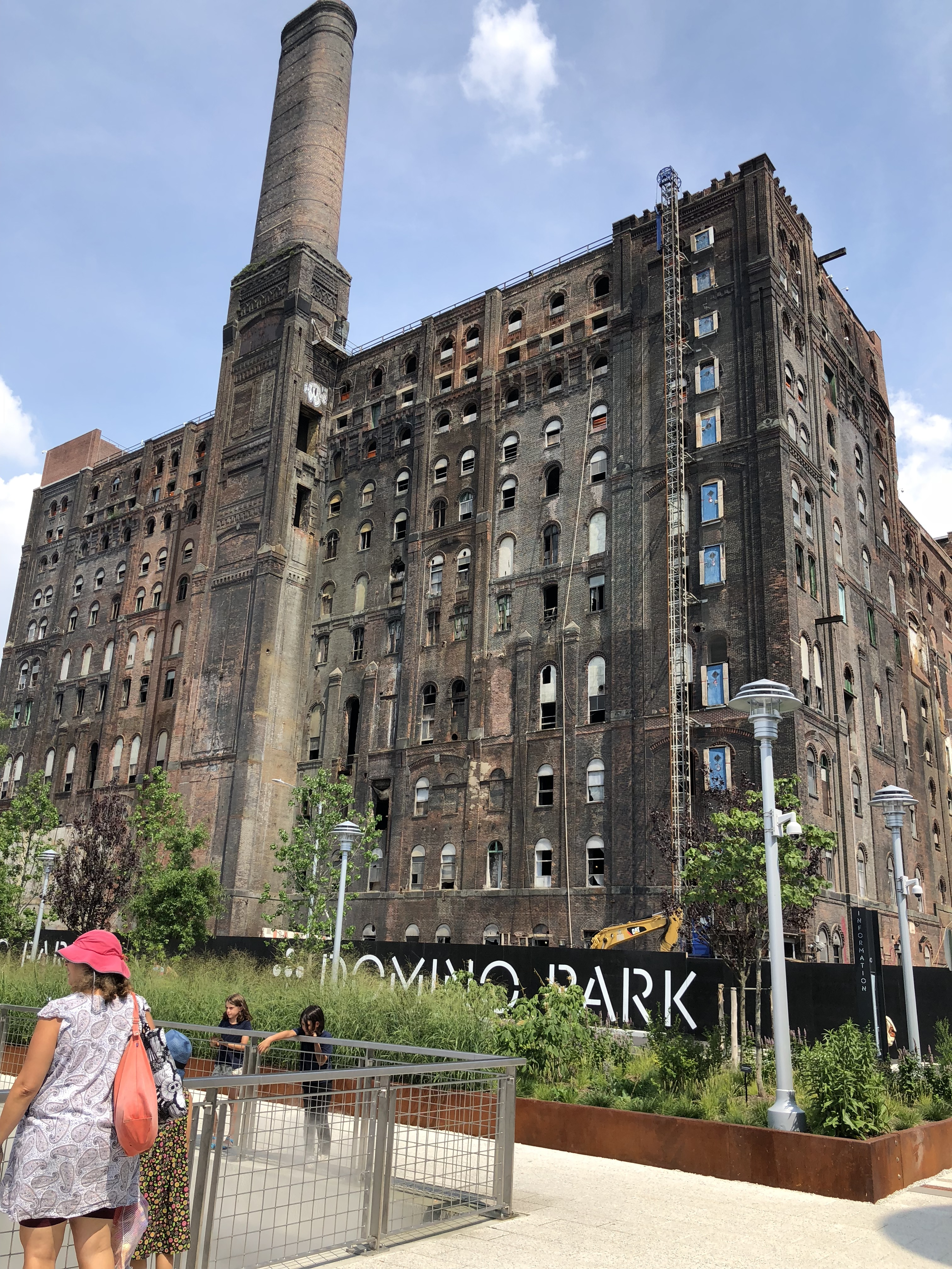 The site of the old Domino Refinery in 2018